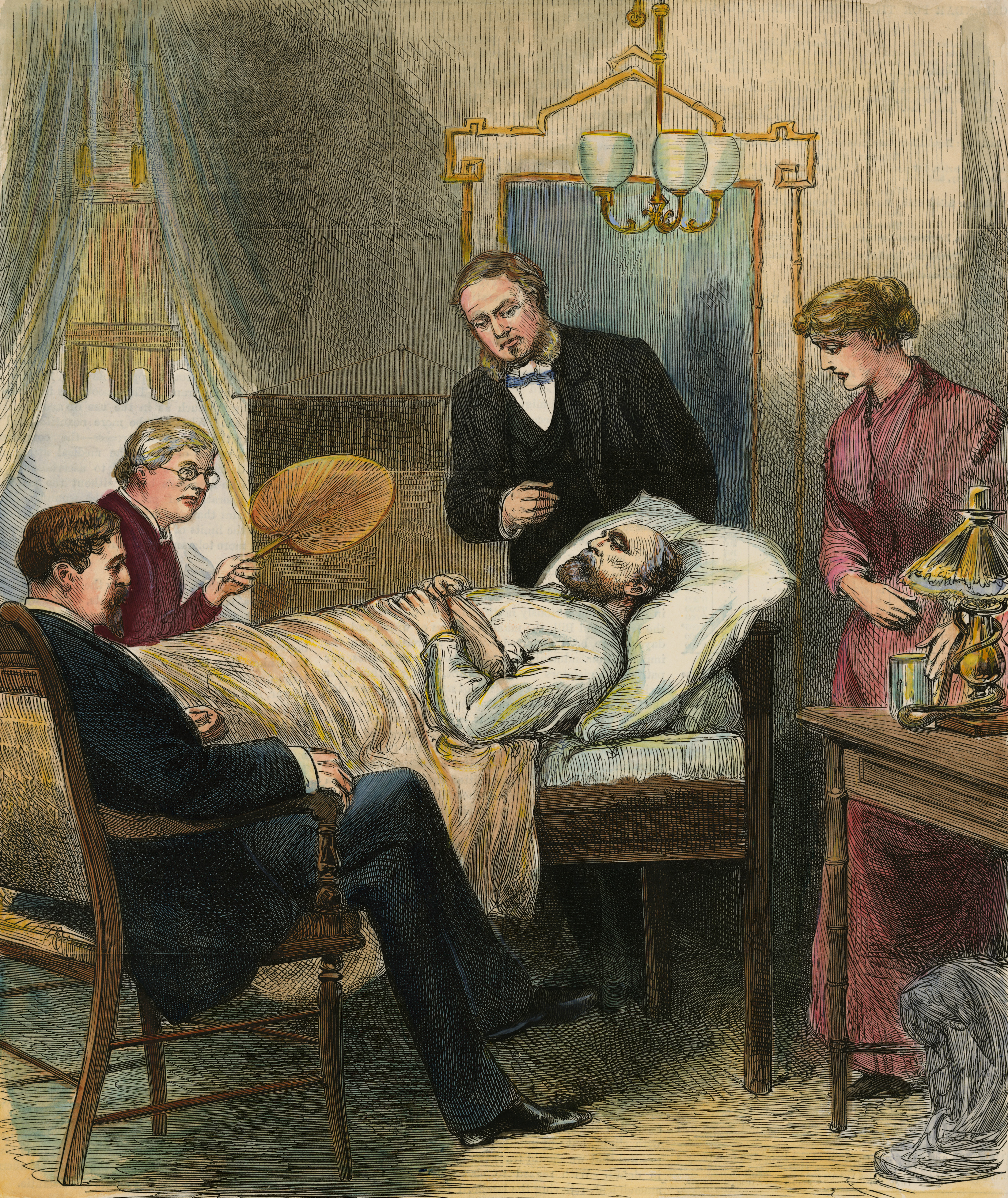 Only two doctors were allowed to attend Garfield against Bliss' wishes at the insistence of First Lady Lucretia Garfield: Dr. Susan Ann Edson, Mrs. Garfield's personal physician and one of a very few women doctors in the country, and Garfield's first cousin Dr. Silas Boynton